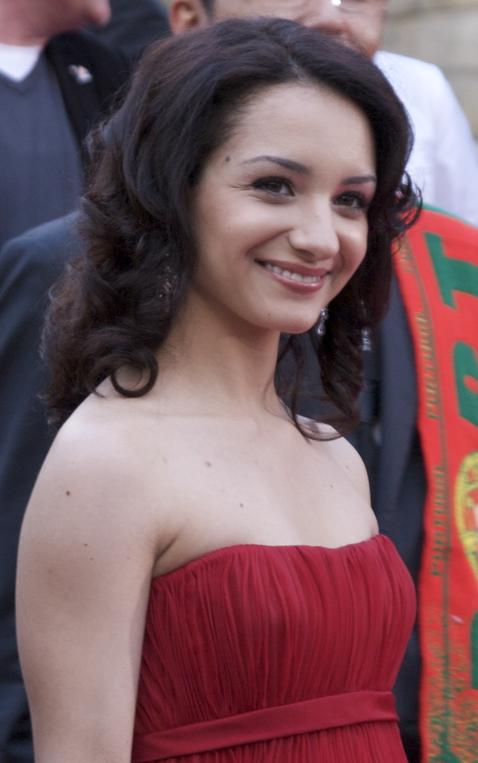 Filipa Azevedo, representative singer of Portugal to Eurovision 2010, in Eurovision 2010 Welcoming Reception.